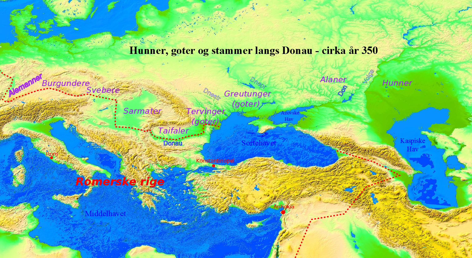 Central and Eastern Europe, ca. AD 350. Showing the Huns and other tribes North of the Roman border.